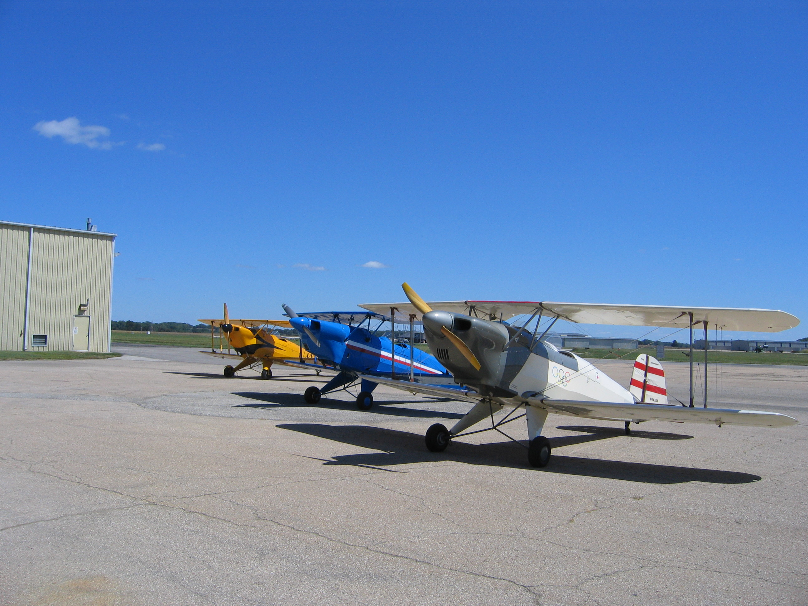 Lycoming Powered Bucker Jungmanns